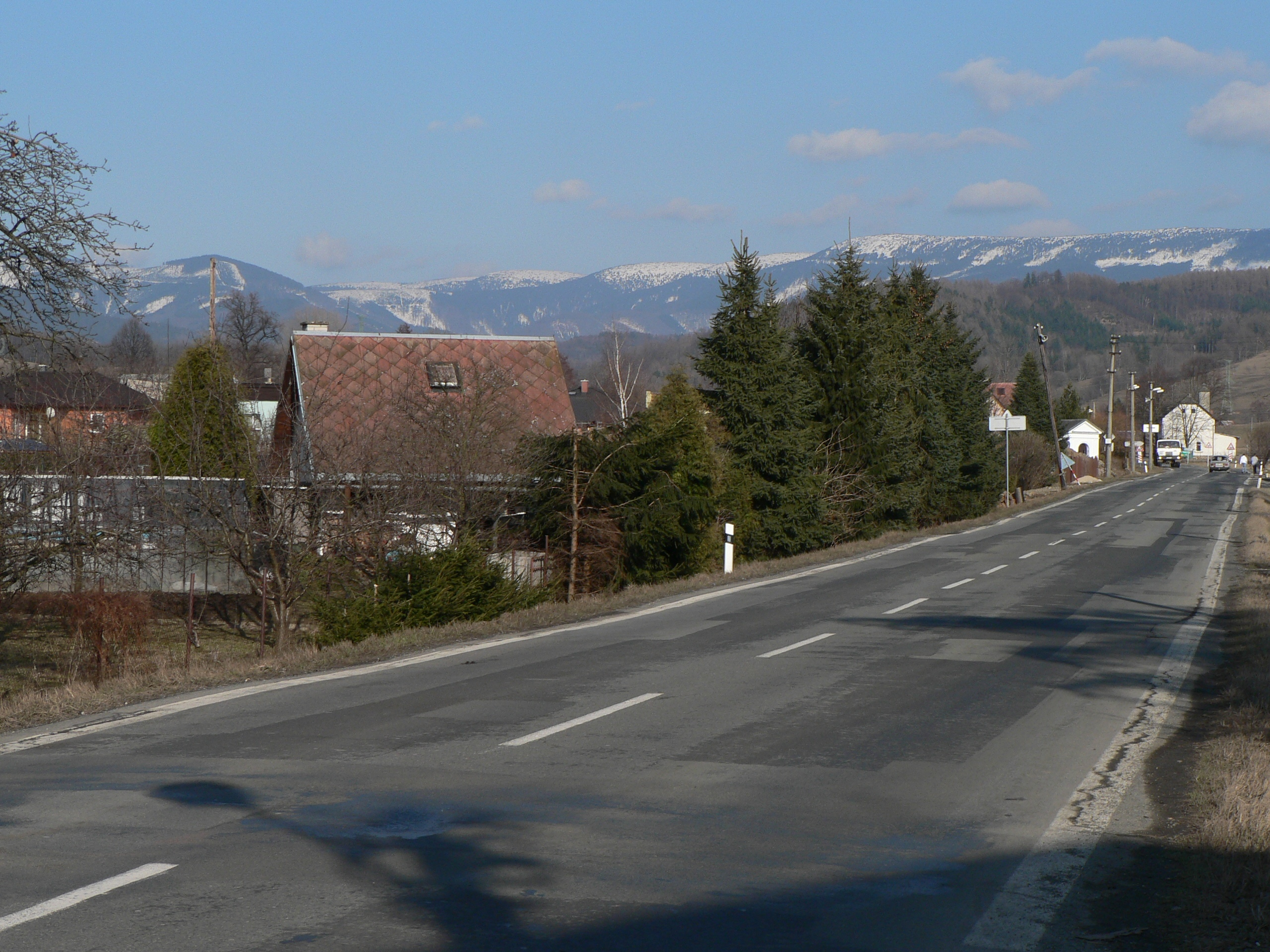 Petrov nad Desnou, central part of village with main ridge of the Hruby Jesenik mountains, Czech republic.